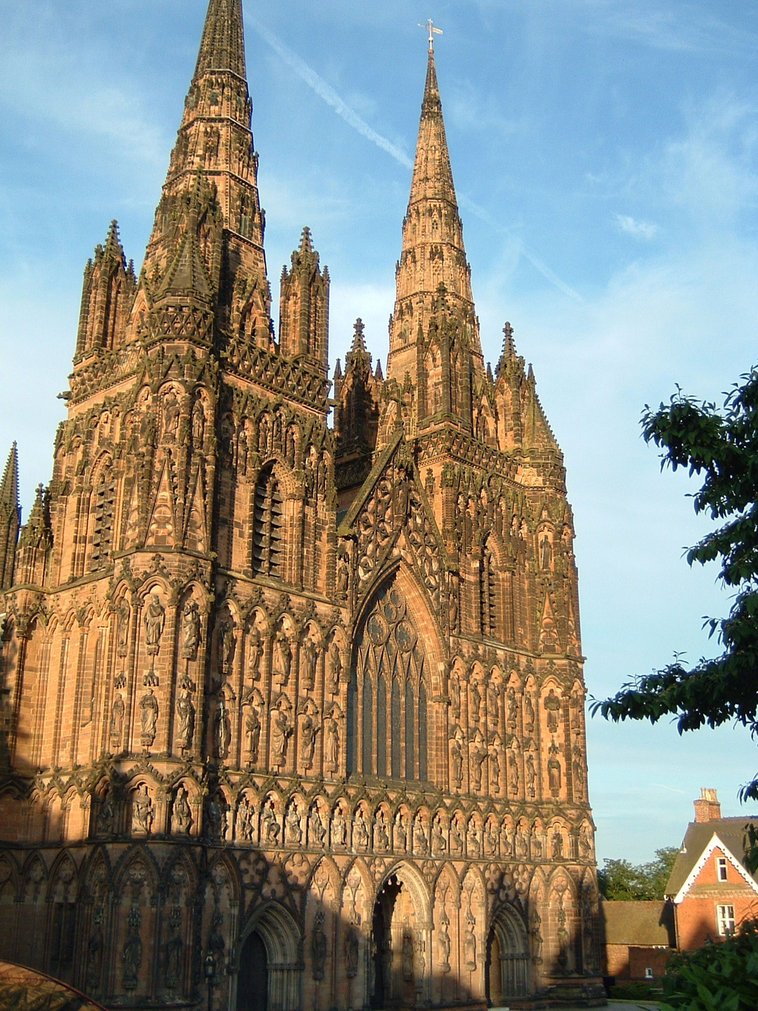 West front of Lichfield Cathedral, Staffordshire